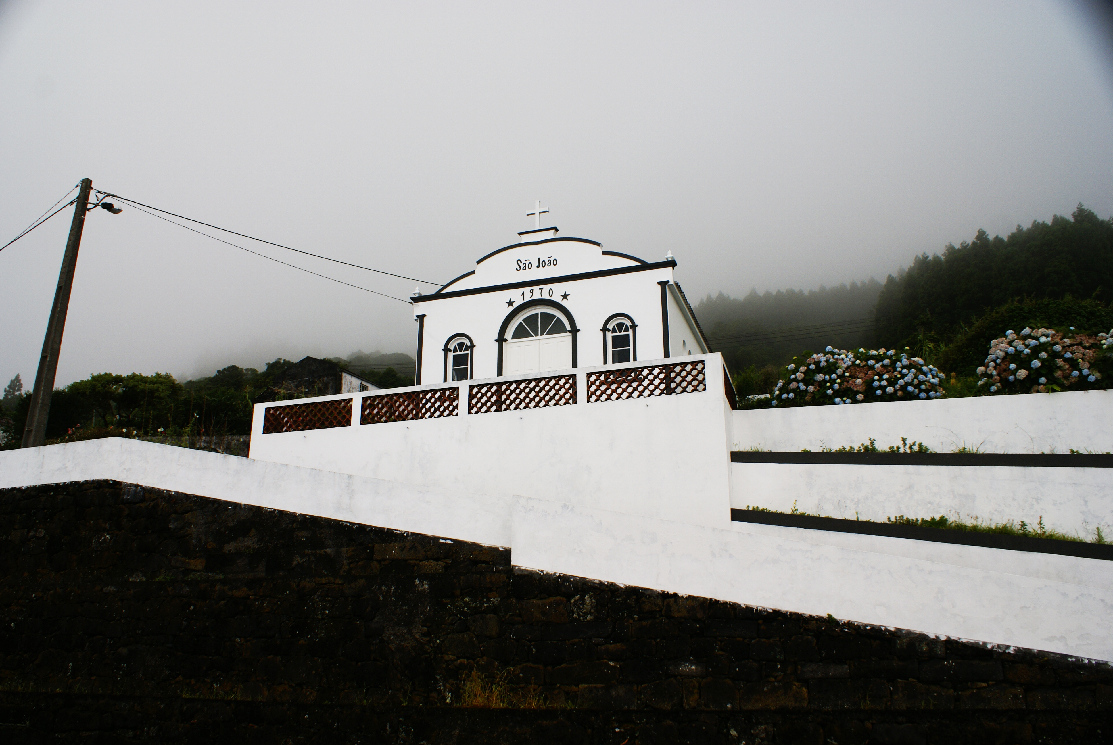 Ermida de São João, Ribeira Grande, concelho de Lajes do Pico, ilha do Pico, Açores, Portugal